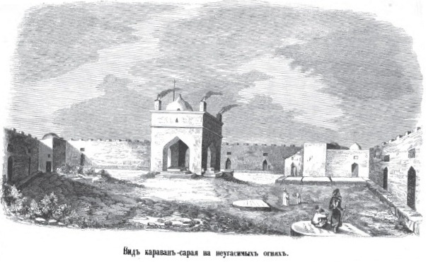 View of karavan-saray on the inextinguishable fires. Ateshgah near Baku